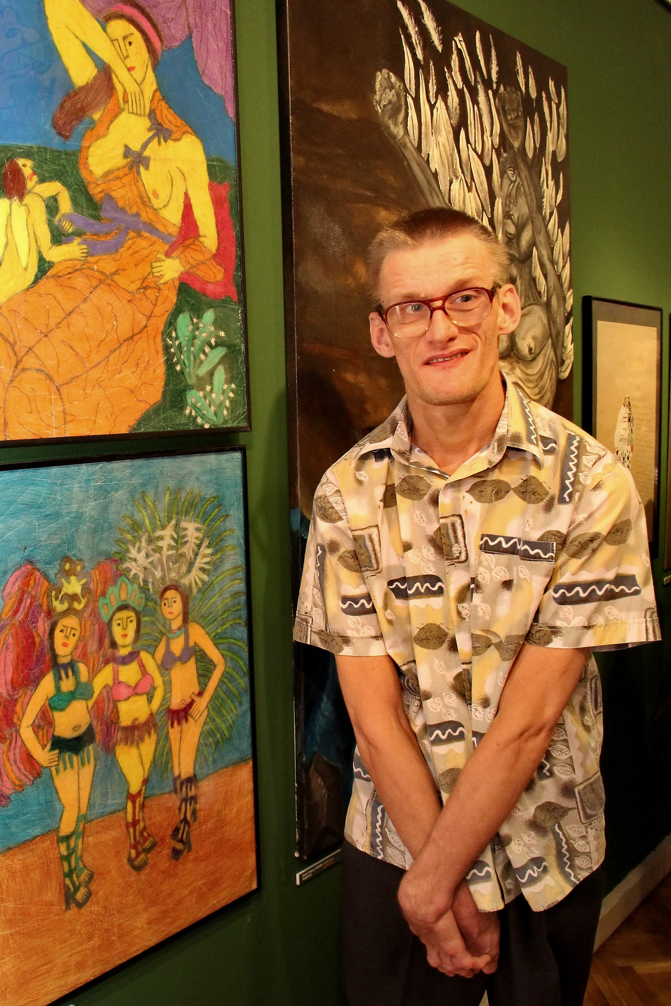 Damian Rebelski (2016) - (Art Brut) photo: J.Pijarowski